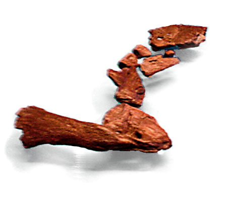 Limb of Tiktaalik (cast of the fossilised limb of a Tiktaalik, looking from fin towards shoulder), photographed at Science Museum, London, 2006